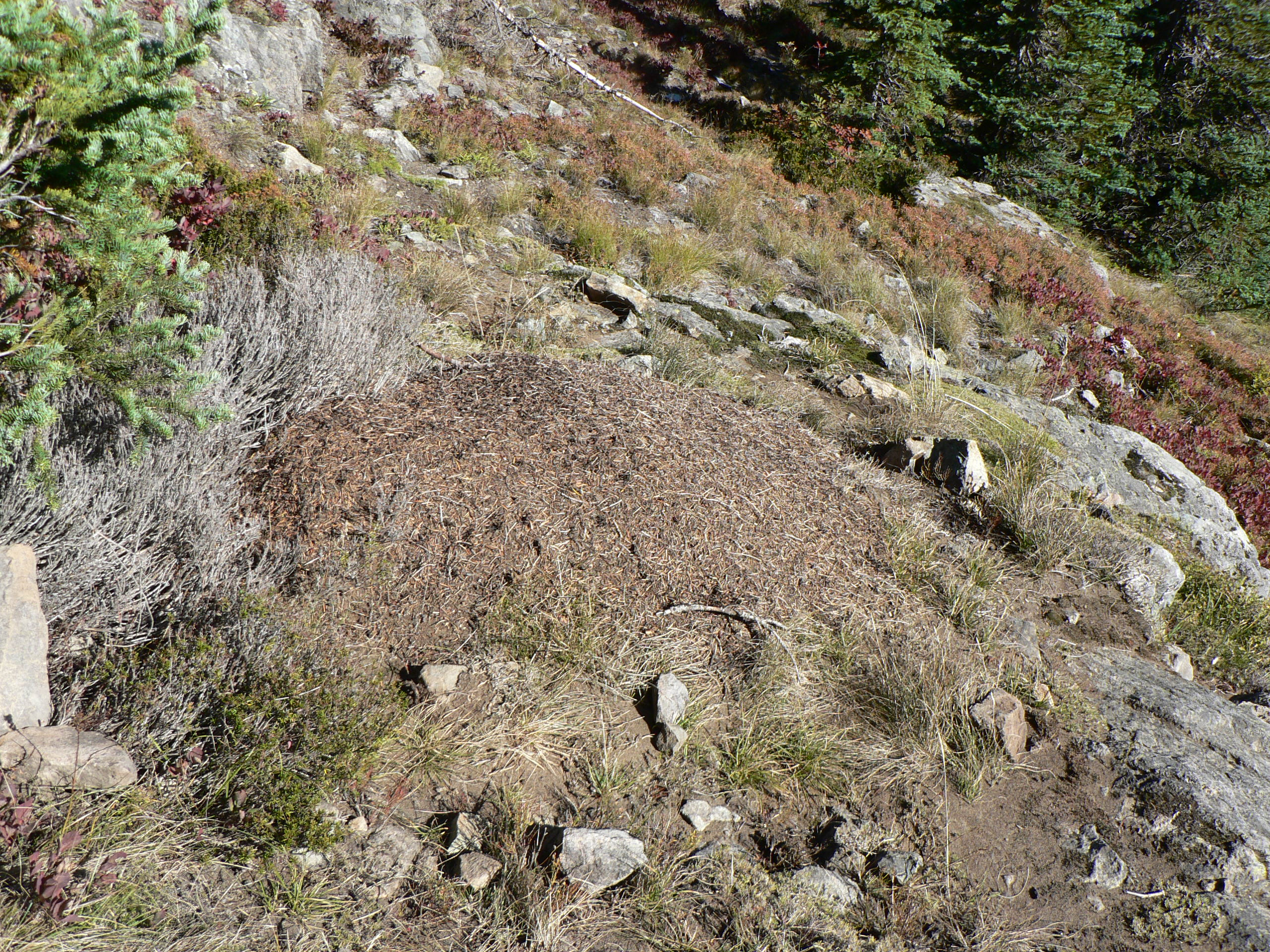 Western Thatching Ant hill